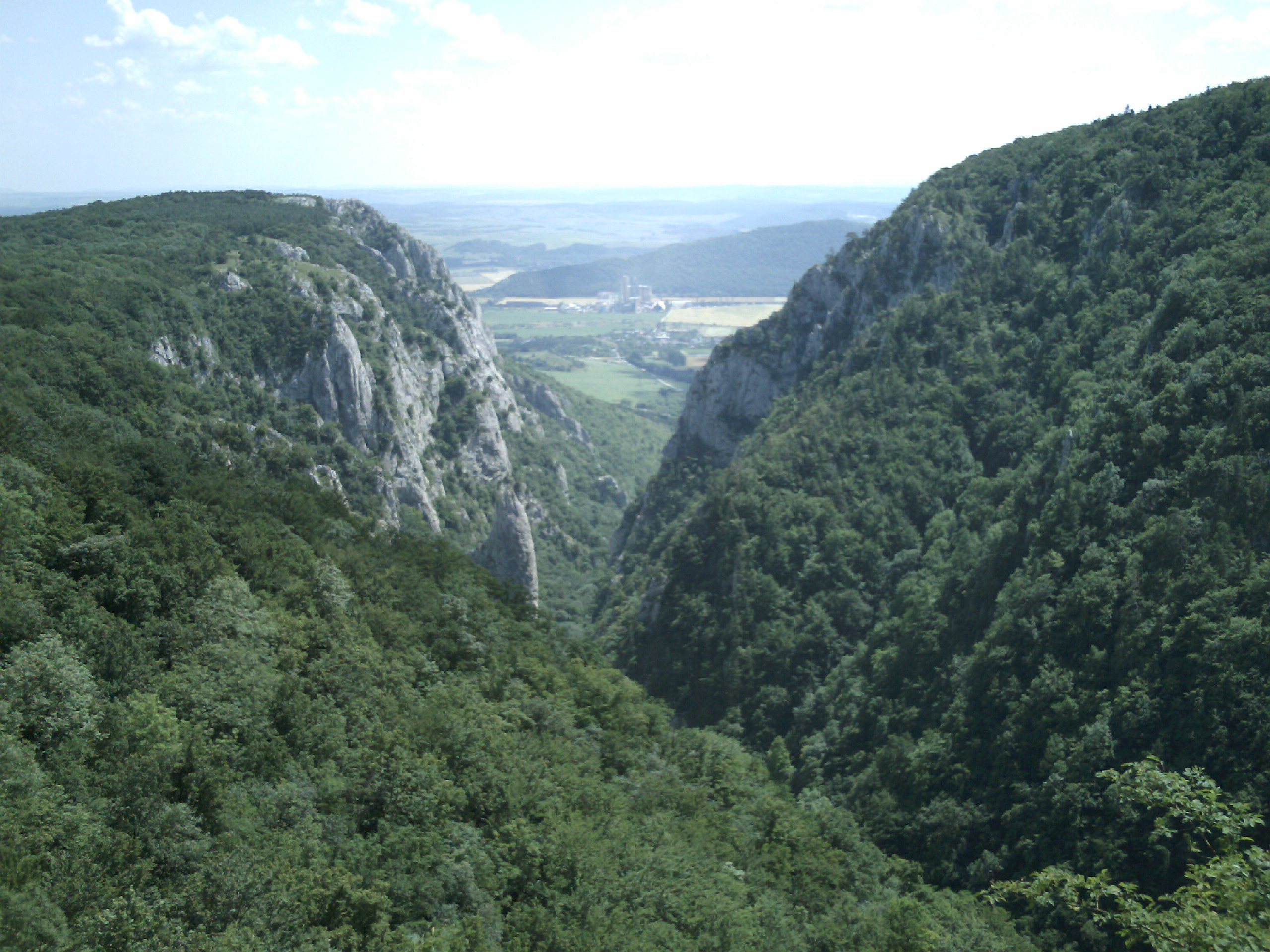 Zadiel canyon view from north site